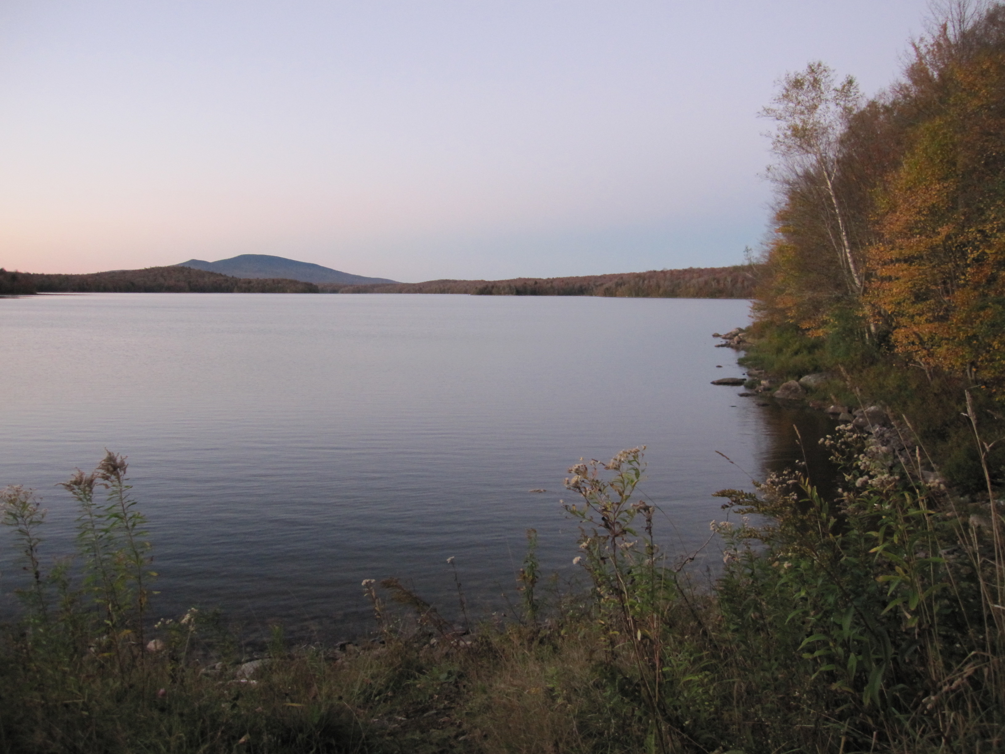 Sun setting by the Somerset Reservoir in Somerset Vermont.